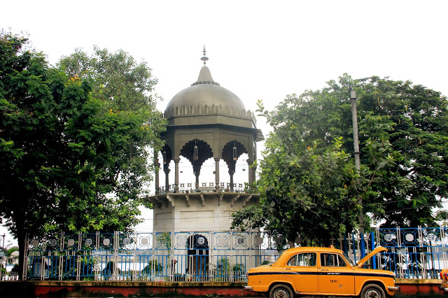 monument